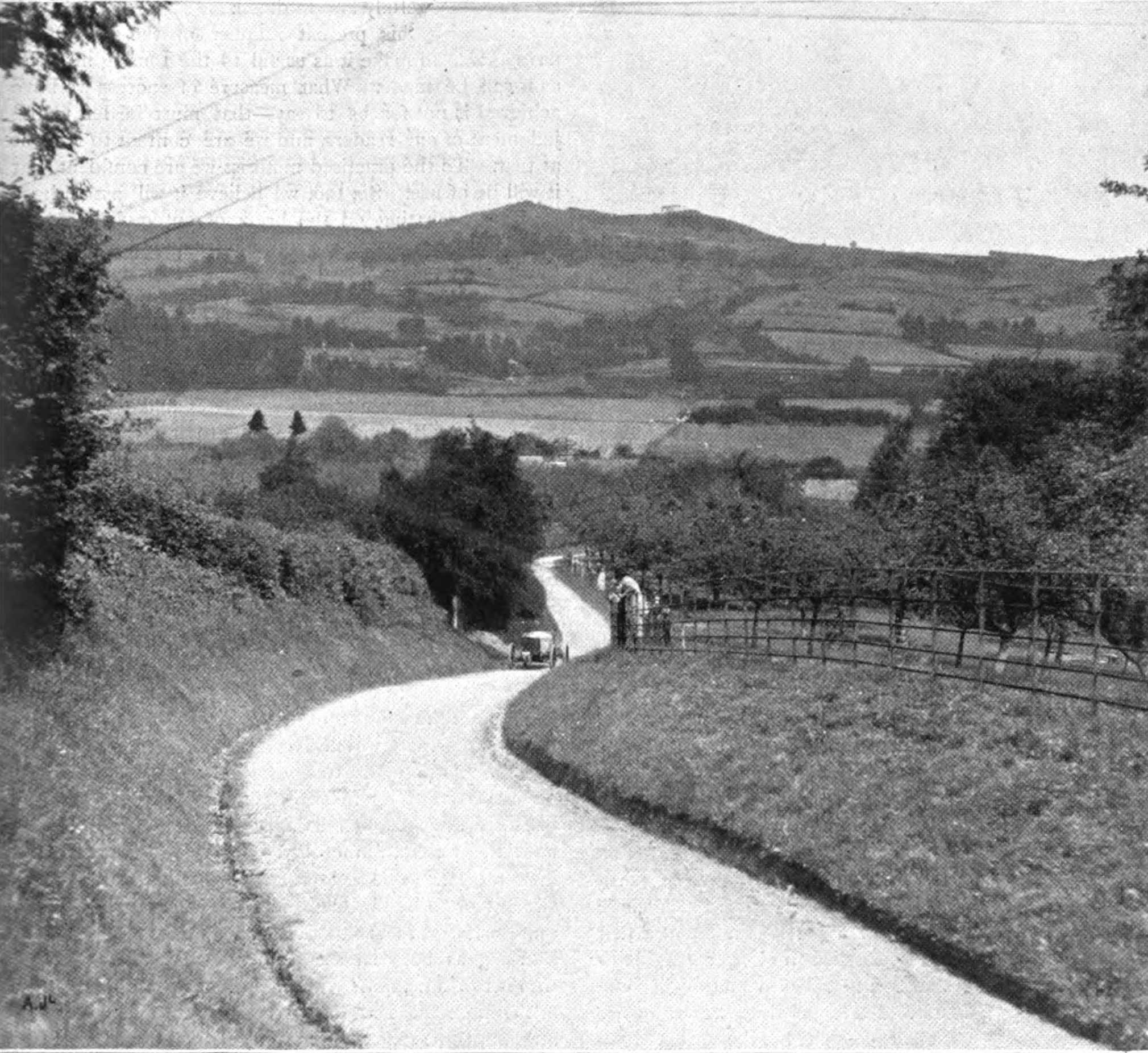 Photograph of the first Vauxhall 30-98 setting records at Shelsley Walsh Hill-Climb